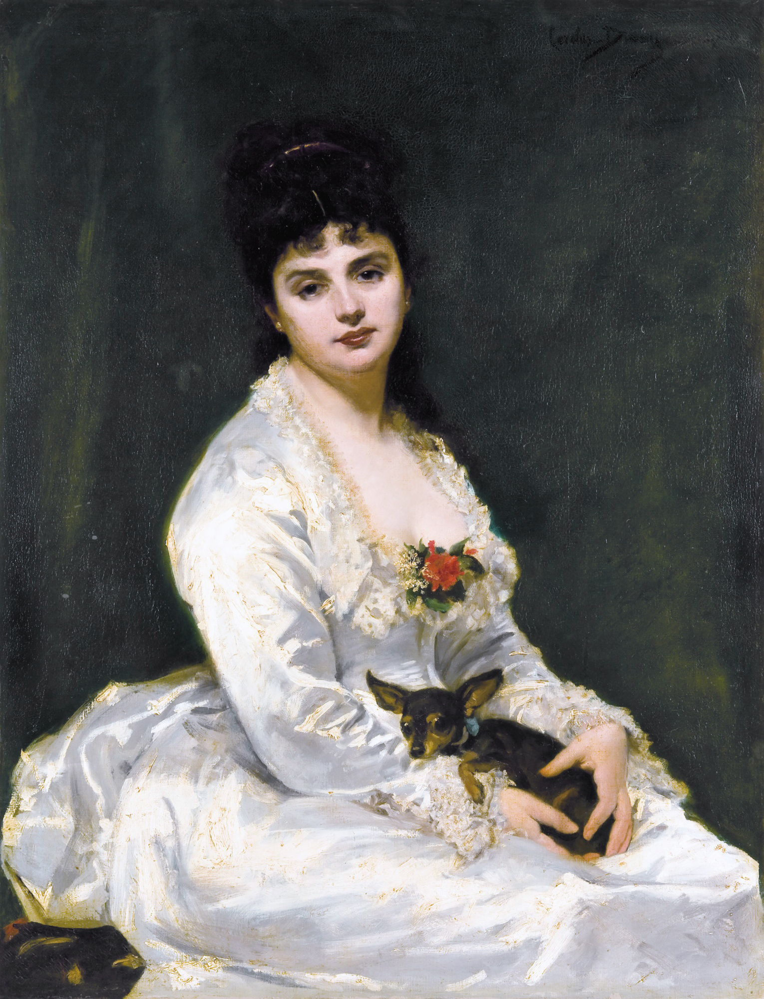 Madame Henry Fouquier oil on canvas 113.5 x 86.5 cm signed t.r.: Carolus Duran 1876 inscribed verso: Me Henry Fouquier 20bis avenue de Neuilly/Seine